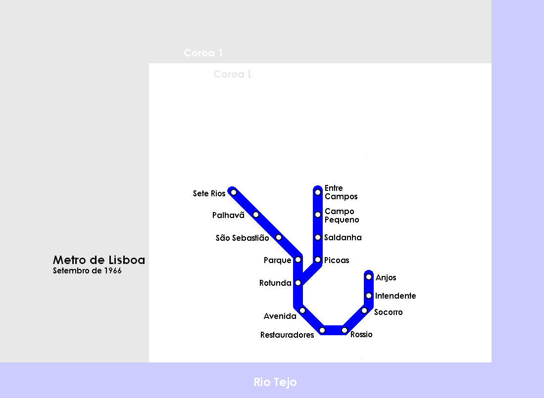 Map of Lisbon Metro in September 1966